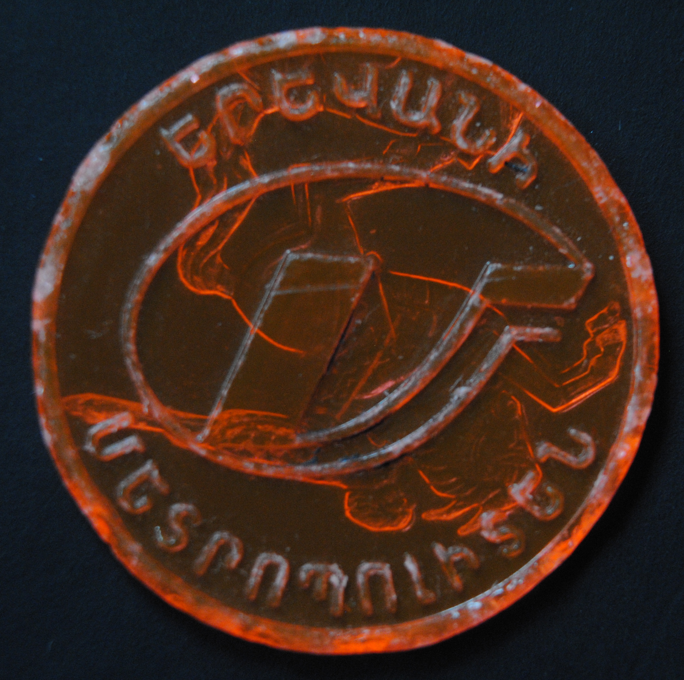 Yerevan metro token, issued May 2018.